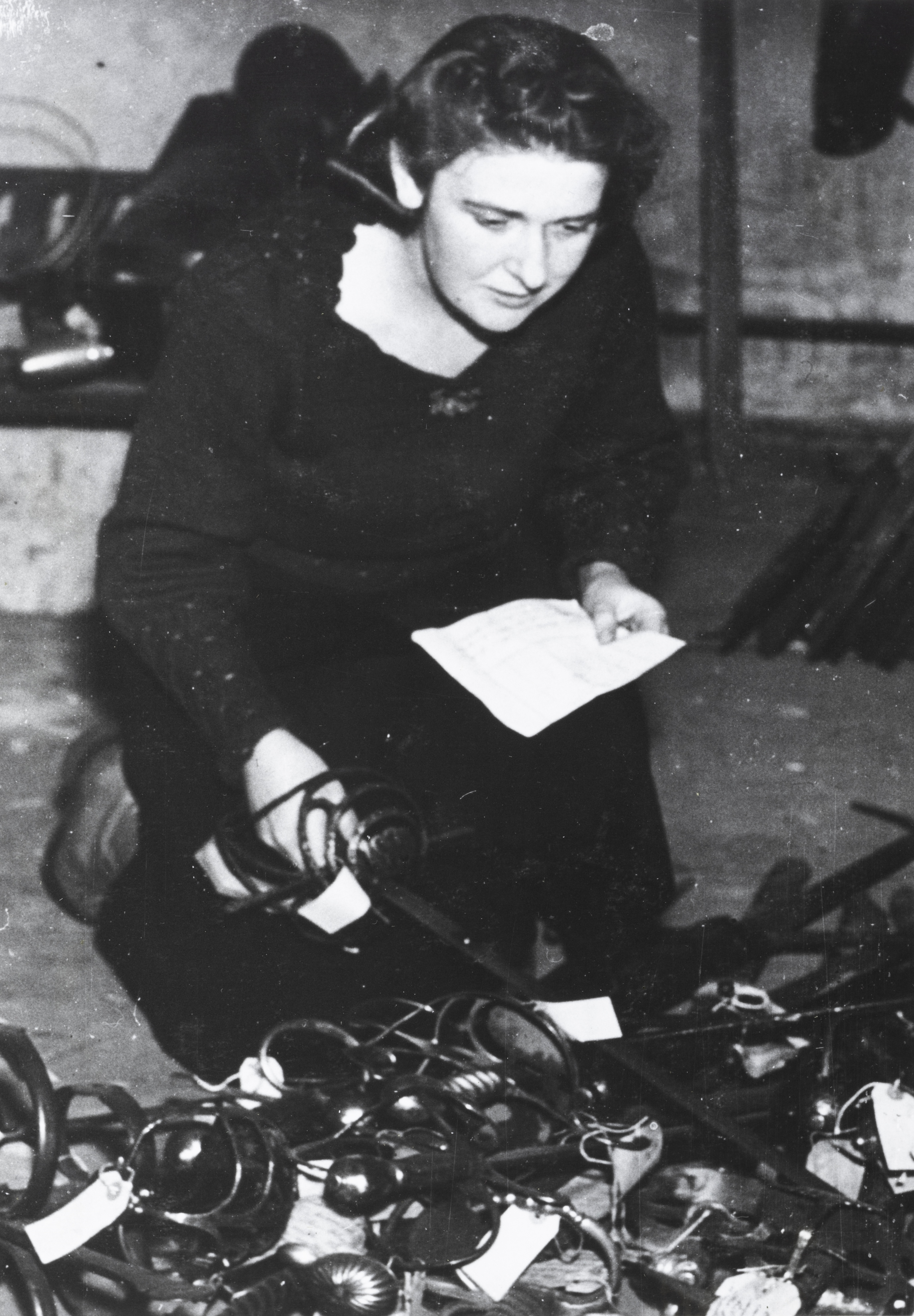 Violet Wloch, Deputy Curator of the York Castle Museum